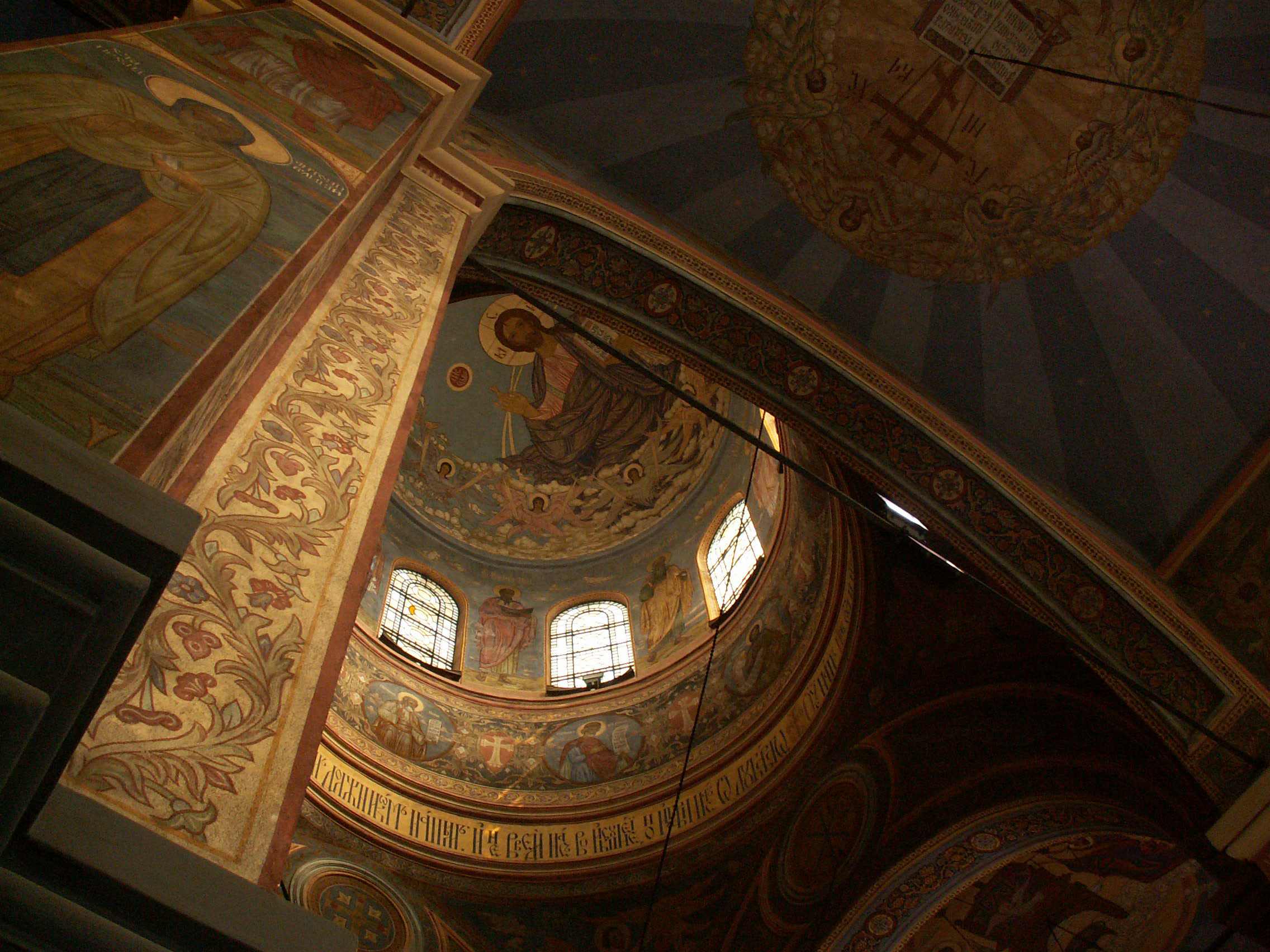 The Cathedral in Varna